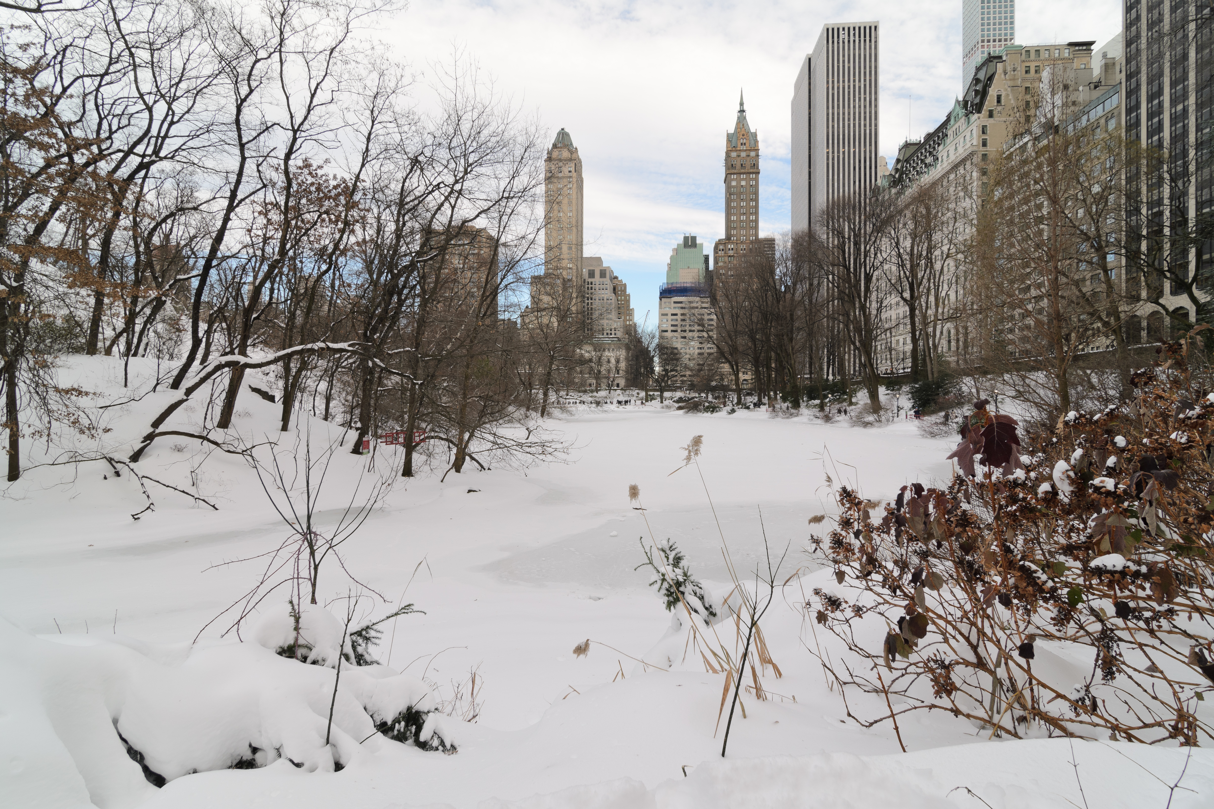 Central Park, New York City, after the January 2016 United States blizzard.